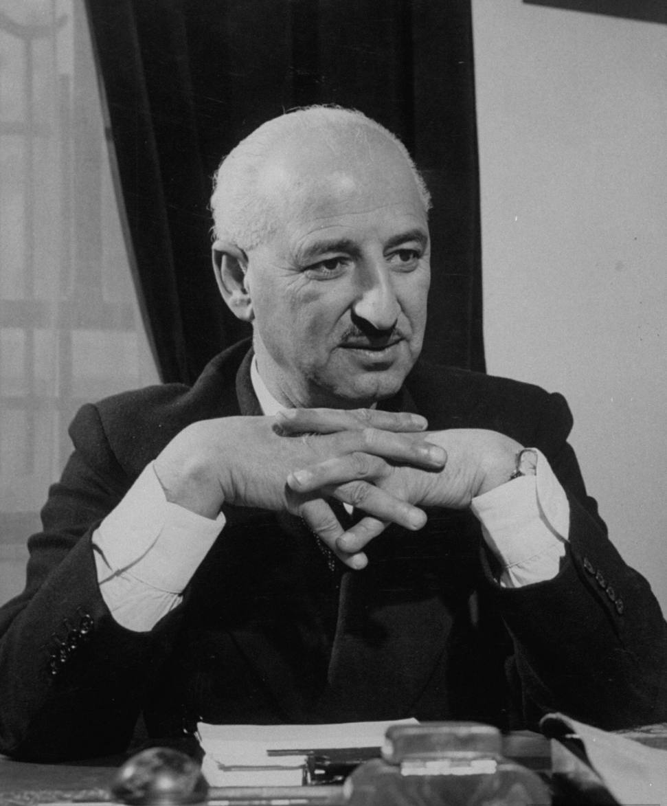 Sulayman al-Nabulsi in his study